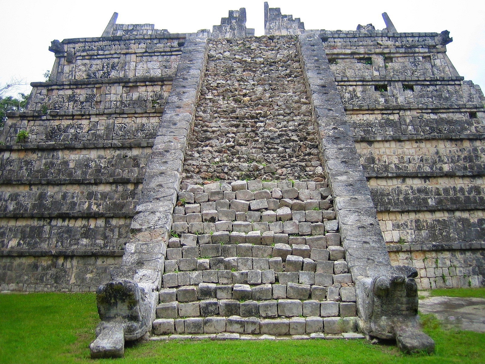 Ossuary in Chichén Itzá (Mexico)